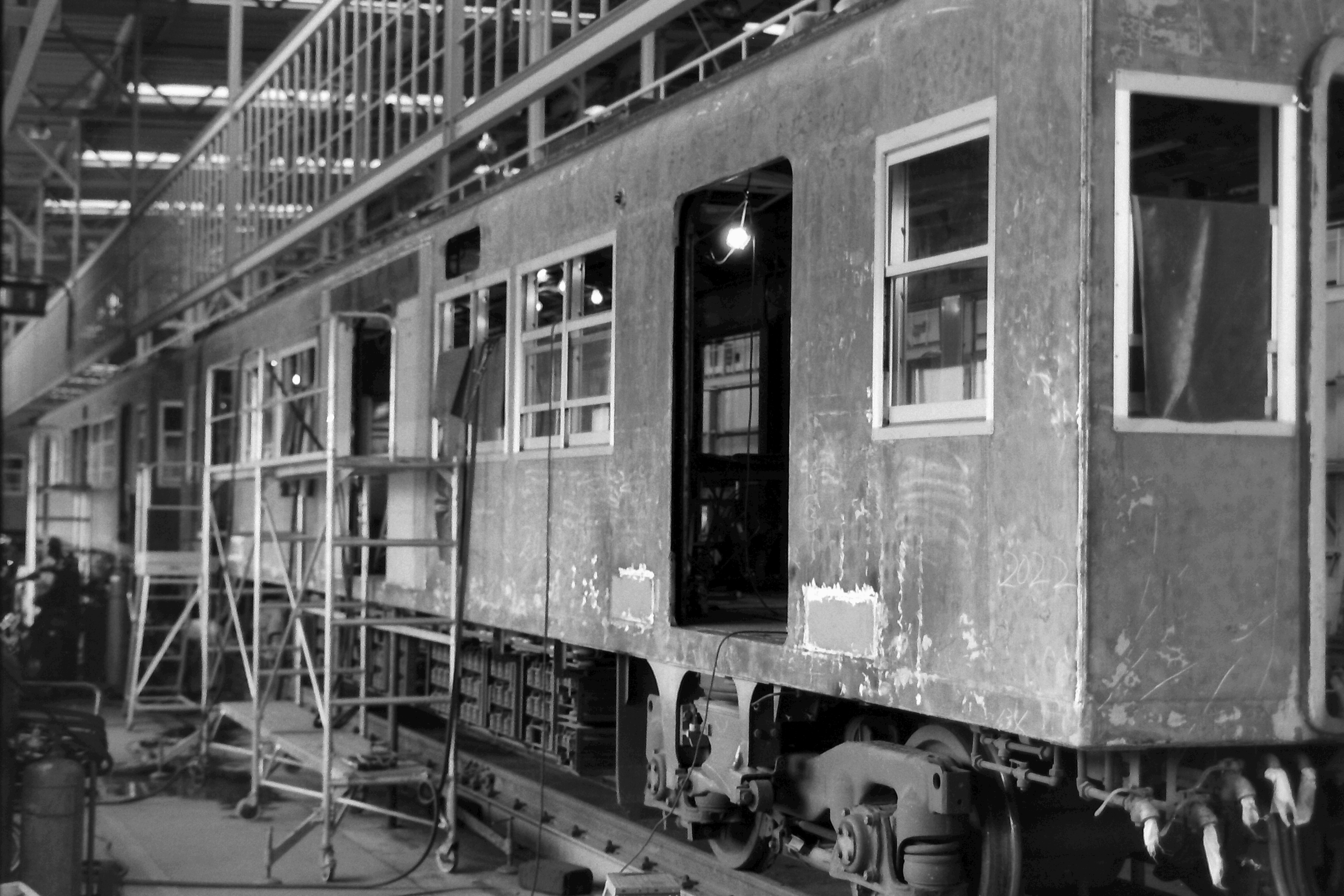 A Nishitetsu 2000 rolling stock being modified to add another door